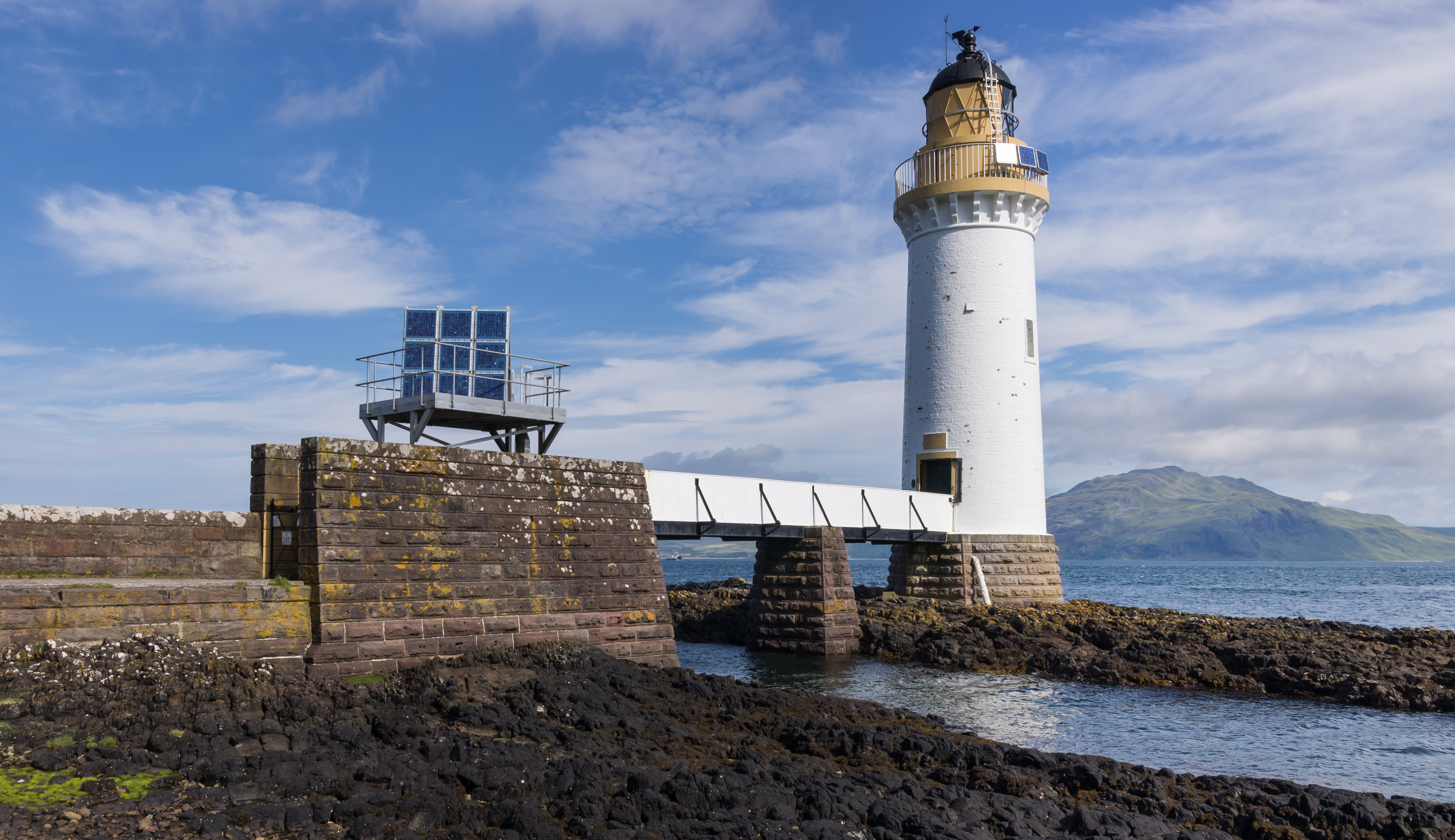 Looking from the Isle of Mull towards the Ardnamurchan peninsula with Ben Hiant dominating. Rubha nan Gall lighthouse, at 18.9m tall, was built in 1857 by David and Thomas Stevenson and automated in 1960.